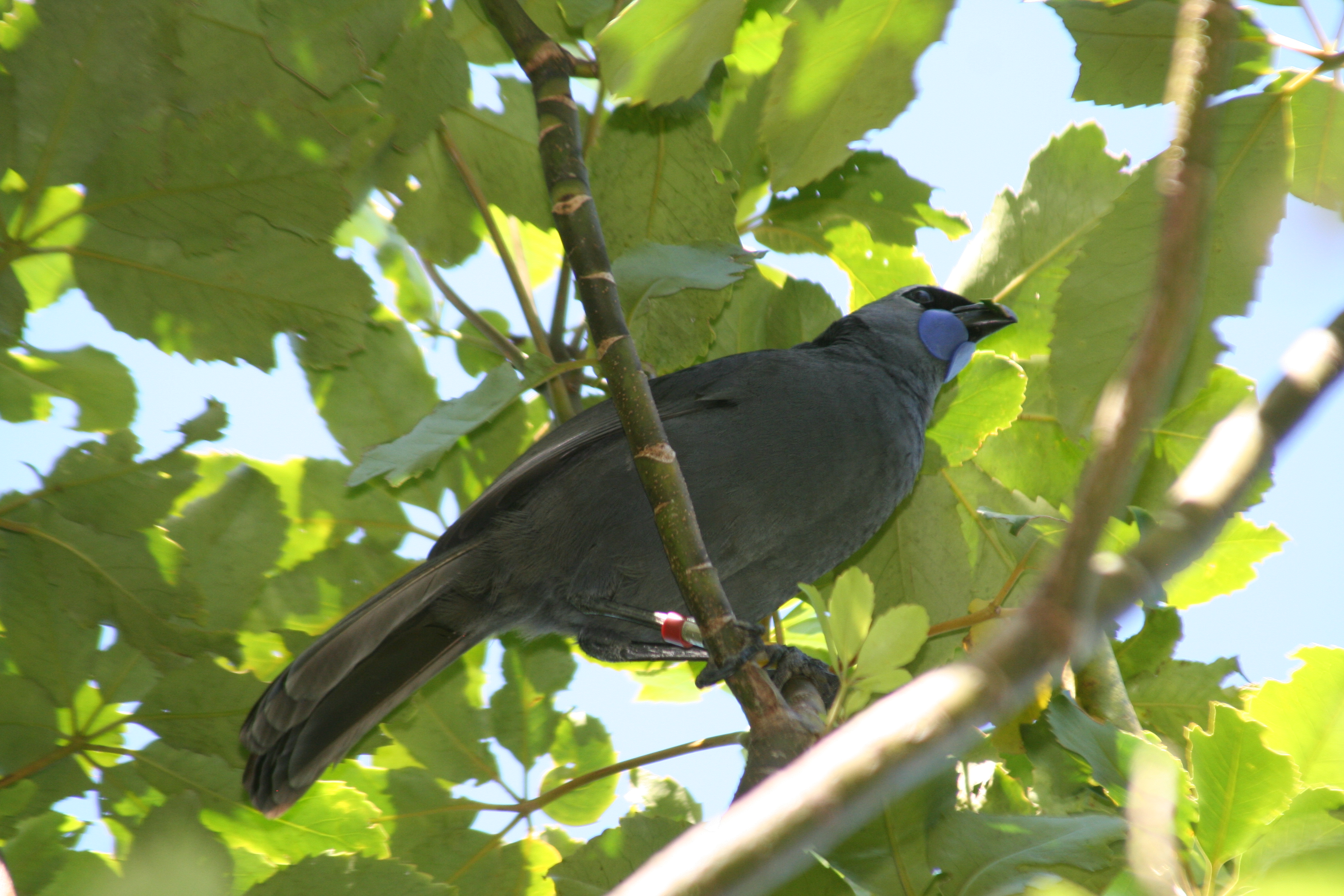 North Island Kokako Callaeas wilsoni on Tiritiri Matangi Island. It took me a long time to get a good shot of this species. We found this guy singing in a Cabbage Tree and listened to him for five haunting minutes before he emerged.